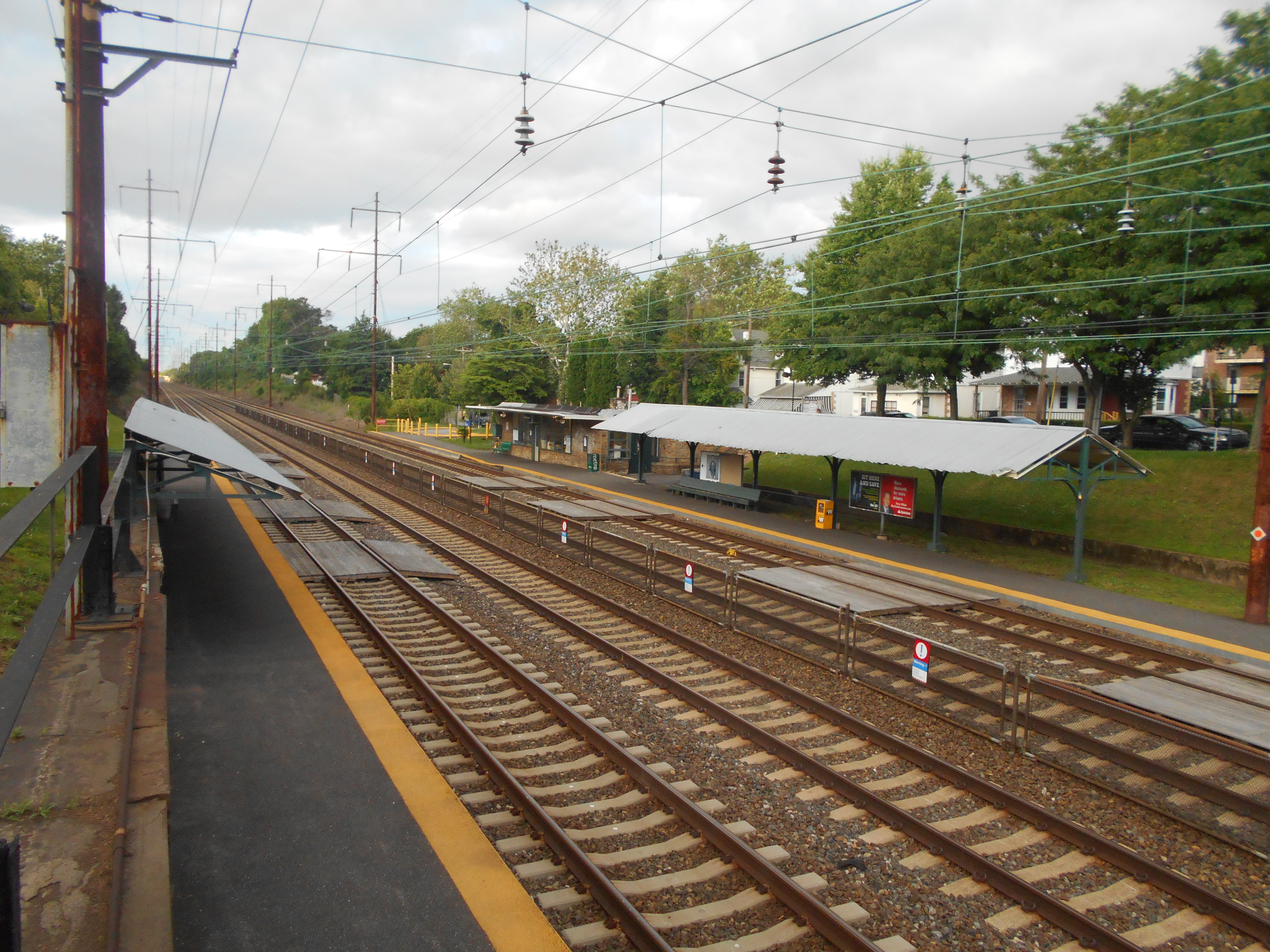 The Ridley Park SEPTA Regional Rail station in Ridley Park, Pennsylvania.